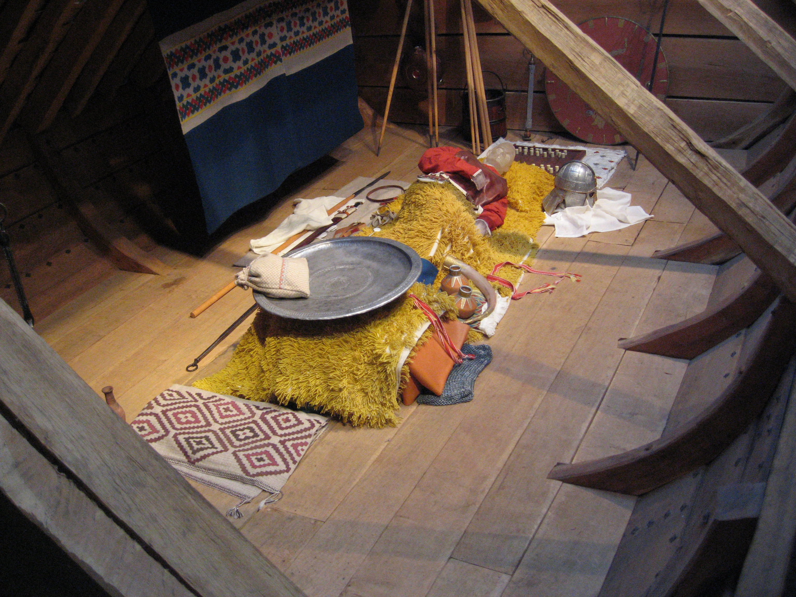 Burial chamber of the Sutton Hoo ship-burial 1, England. Reconstruction shown in the Sutton Hoo Exhibition Hall.